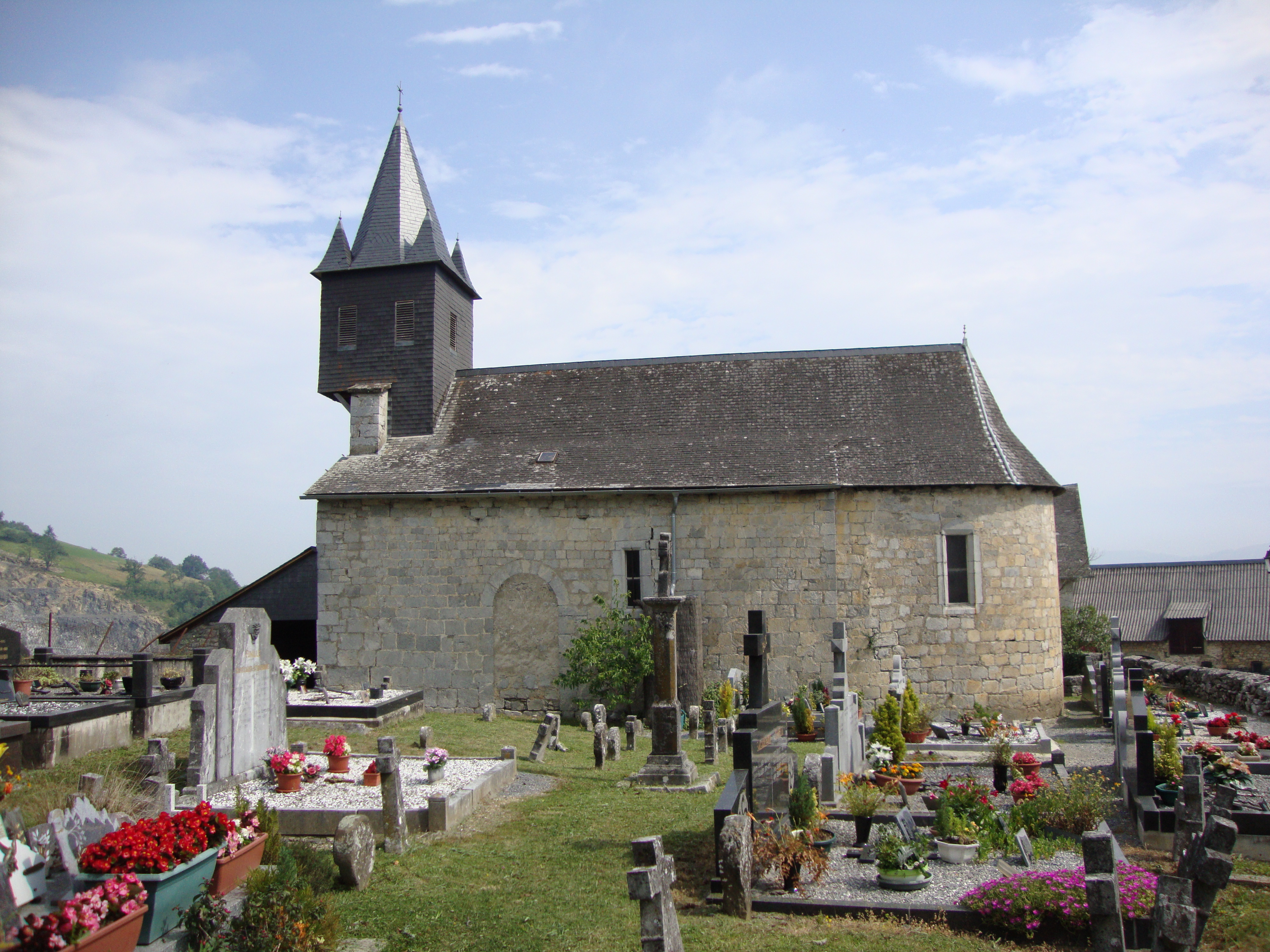 Cihigue (Camou-Cihigue, Pyr-Atl, Fr) church